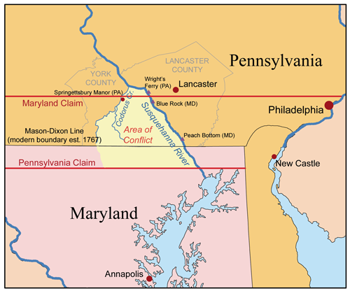 This is a map illustrating Cresap's War.